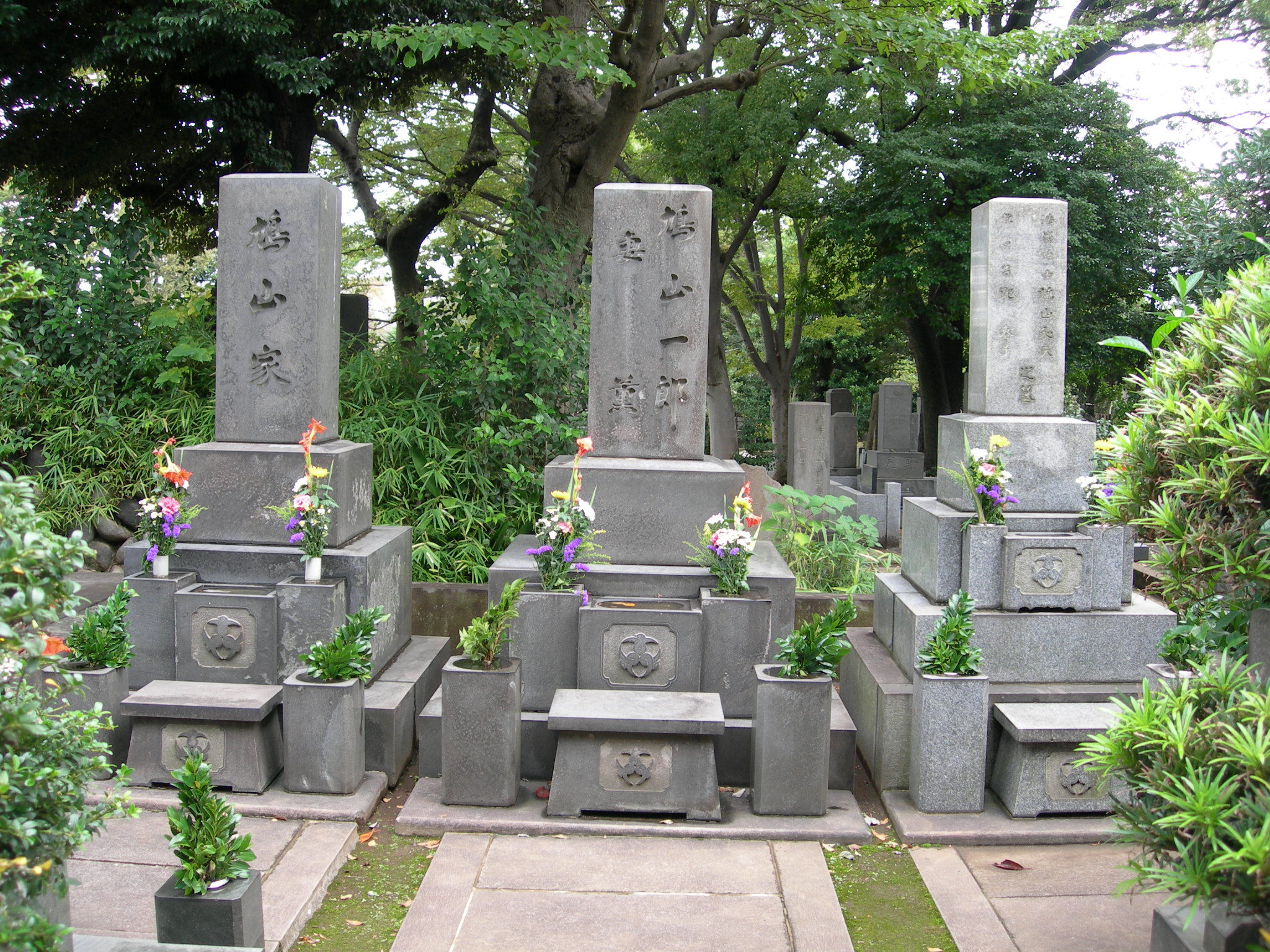 Grave of Ichirō Hatoyama (center), Kazuo Hatoyama (right) and Family (left), Yanaka Cemetery, Taito, Tokyo.